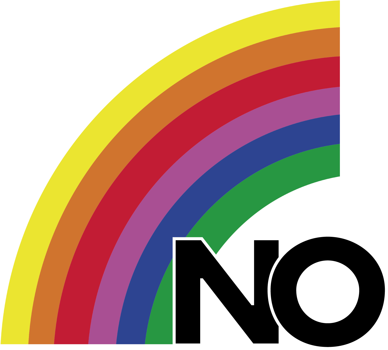 Official logo of the NO side during the Chilean national plebiscite, 1988.